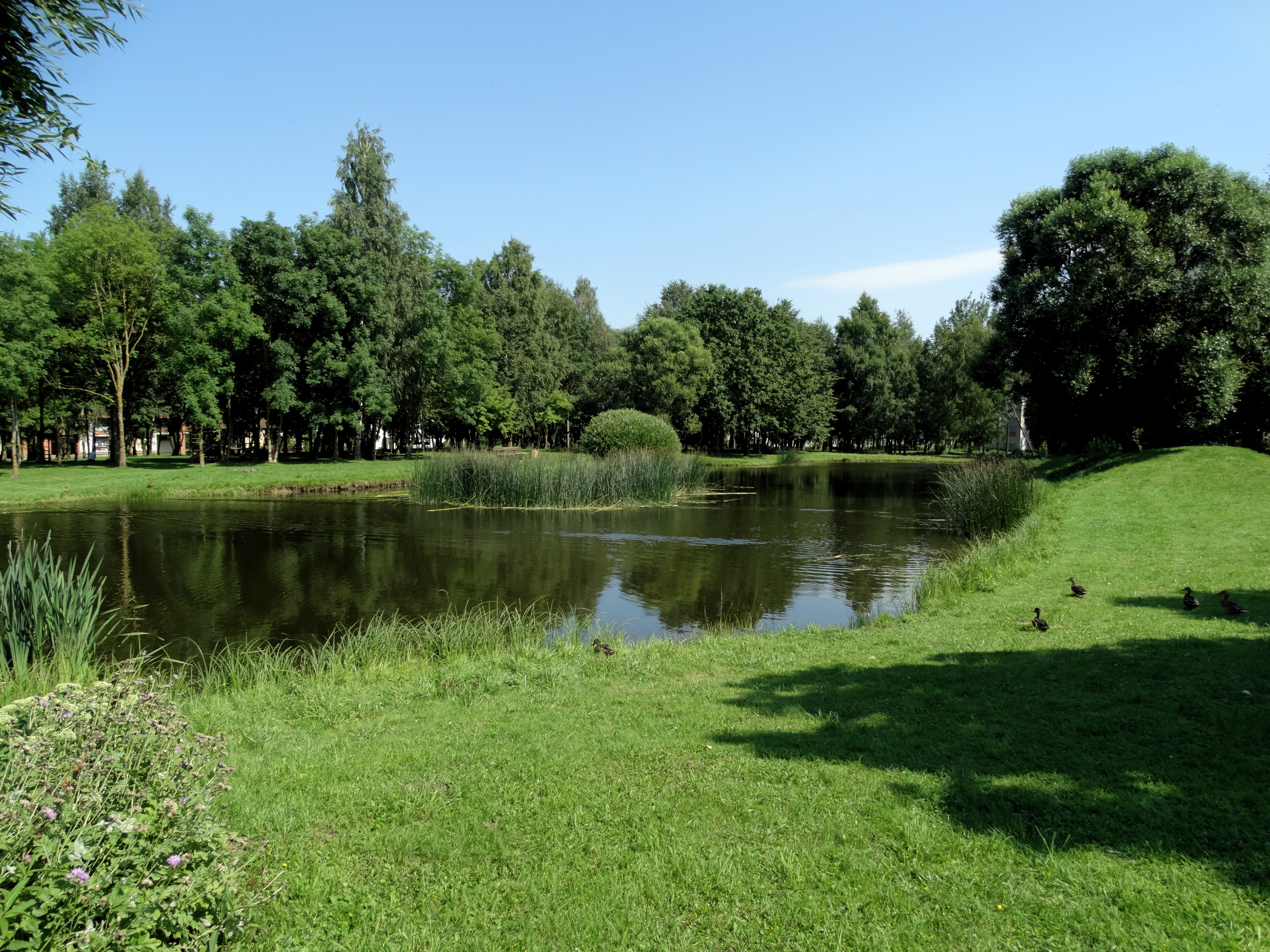 Gataučiai, pond, Joniškis District, Lithuania